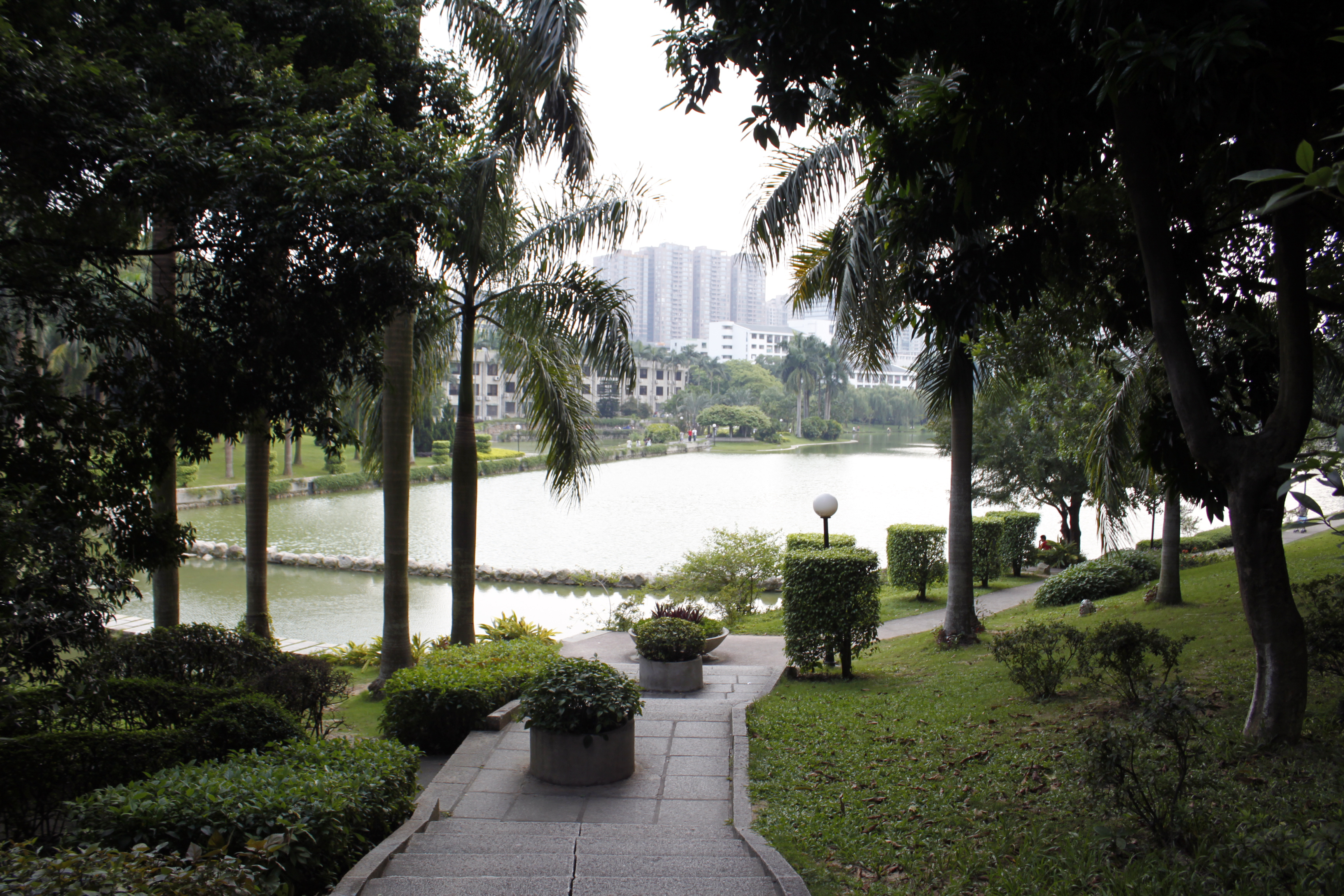 Lake Wenshan of Shenzhen University